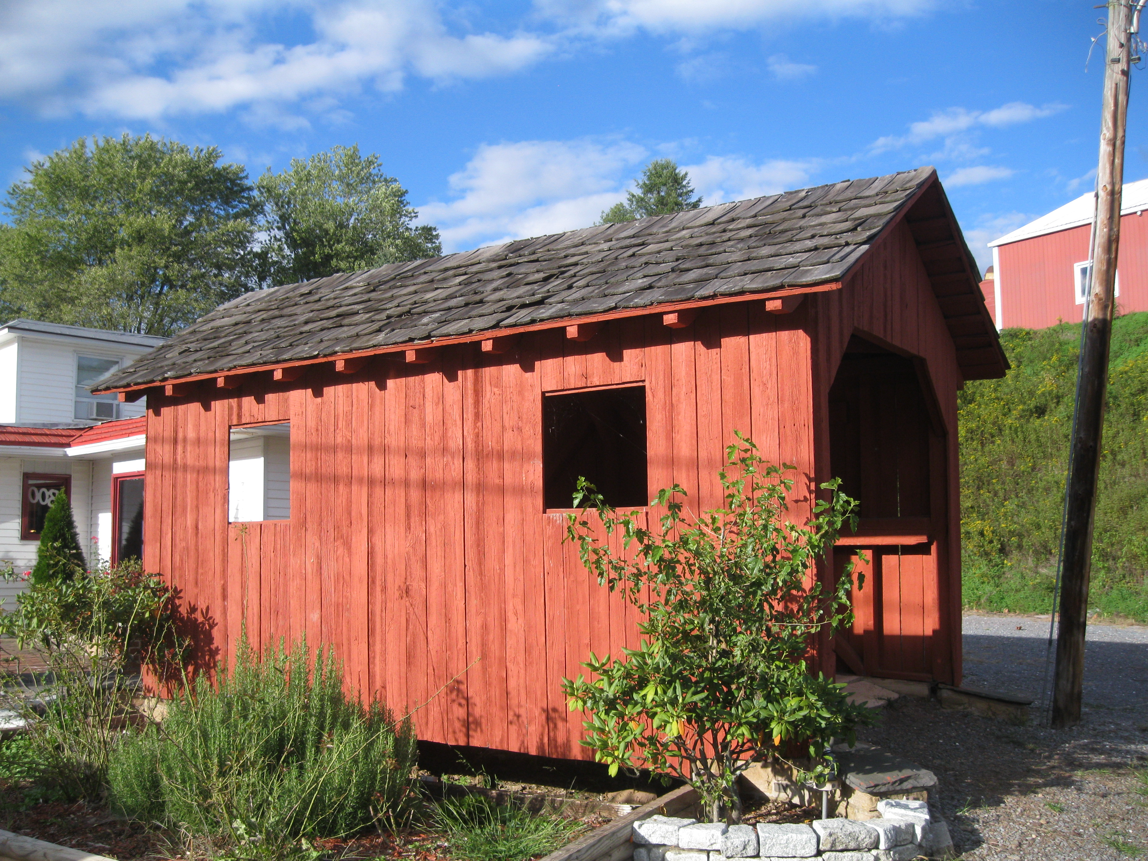 Model of the Welle Hess Covered Bridge No. S1 built in 1983 with wood salvaged from the collapse of the original bridge in 1981. The model is in Orange Township, Columbia County, Pennsylvania, USA. The original bridge was built in 1871 over Fishing Creek in Sugarloaf Township, Columbia County, Pennsylvania in the United States.